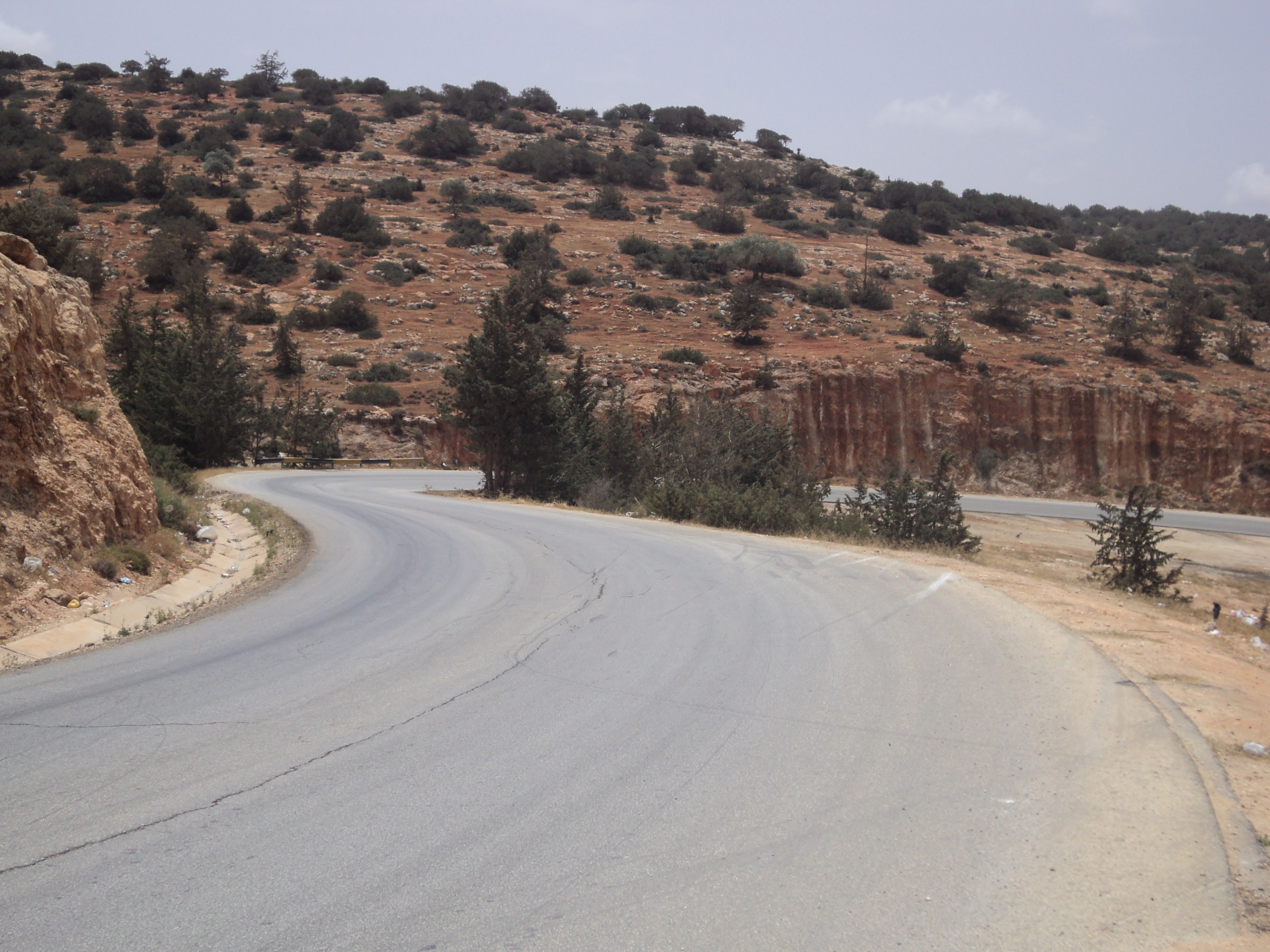 Part of Al Marj-Tacnis road on Al Marj escarpment (Shaliouni), on, Jebel Akhdar, Libya.